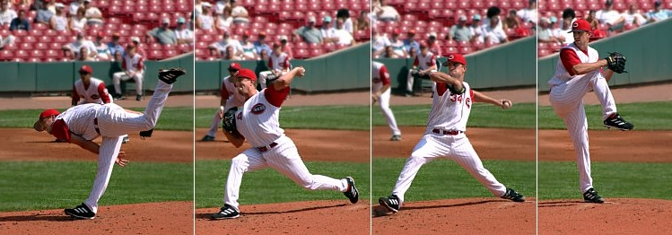 Pitcher's motion, Brandon Claussen, Cincinnati Reds